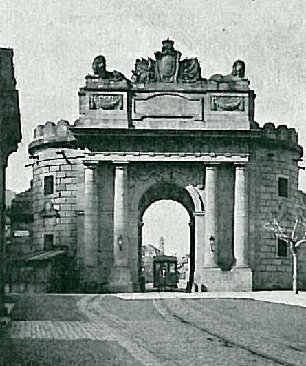 historical view of Hirschhorn